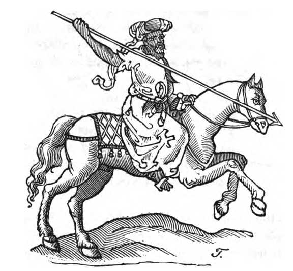 Holzschnittillustrationen nach der originalen Buchmalerei zum Pilgerbuch des Ritters Arnold von Harff (1471-1498) In: Eberhard von Groote (Hrsg): Die Pilgerfahrt des Ritters Arnold von Harff, von Cöln durch Italien, Syrien, Aegypten, Arabien, Äethiopien, Nubien, Palästina, die Türkei, Frankreich und Spanien, wie er sie in den Jahren 1496 bis 1499 vollendet, beschrieben und durch Zeichnungen erläutert hat, Cöln 1860